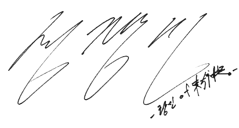 The signature of Changmin, a South Korean singer, actor, and a member of the pop duo TVXQ.